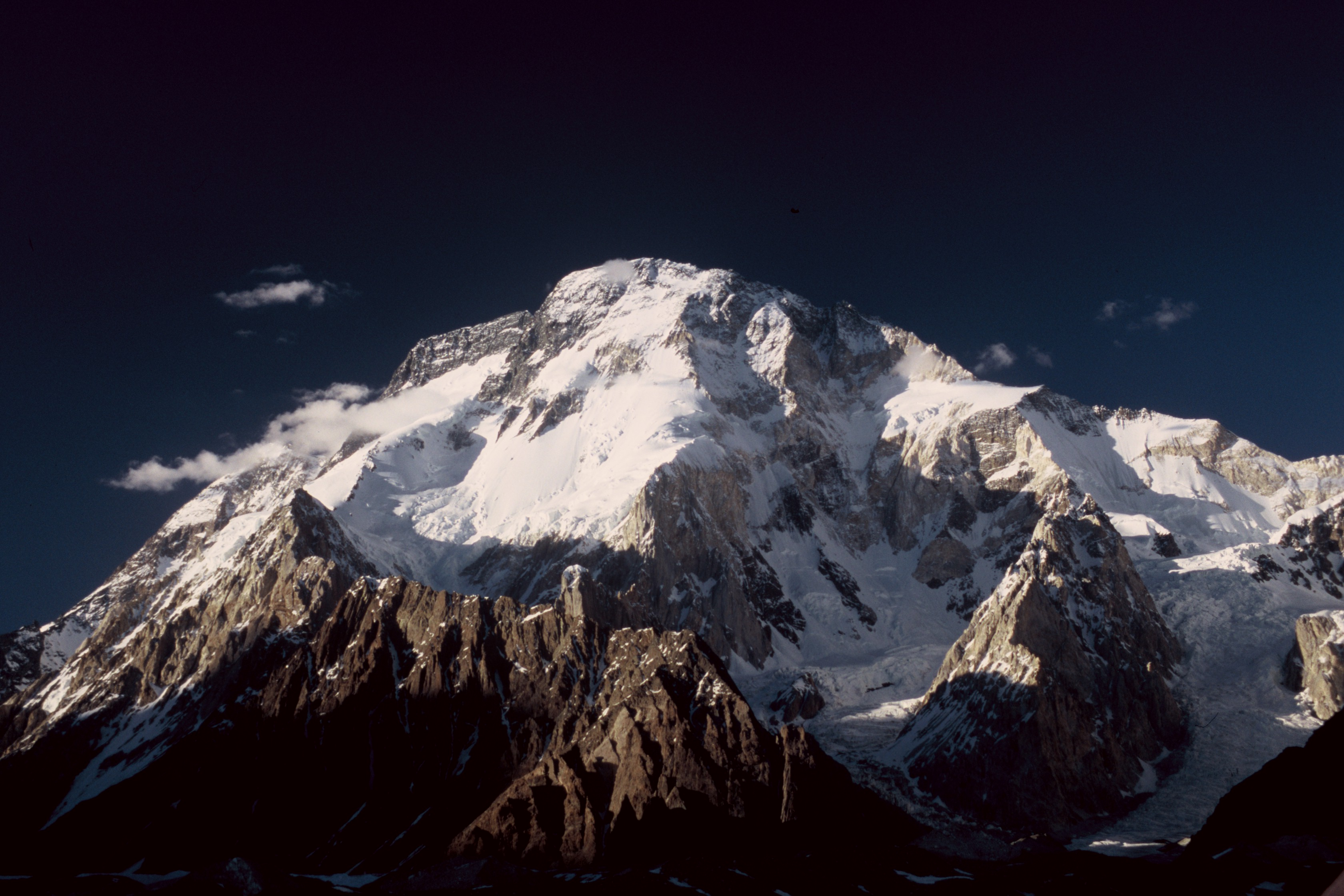 Broad Peak seen from Concordia Author: Florian Ederer Date: July 2005